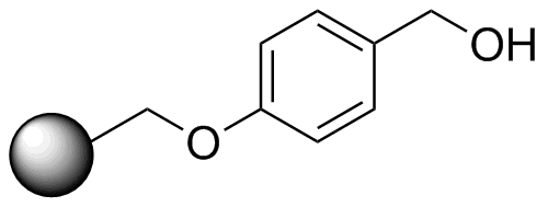 Wang resin